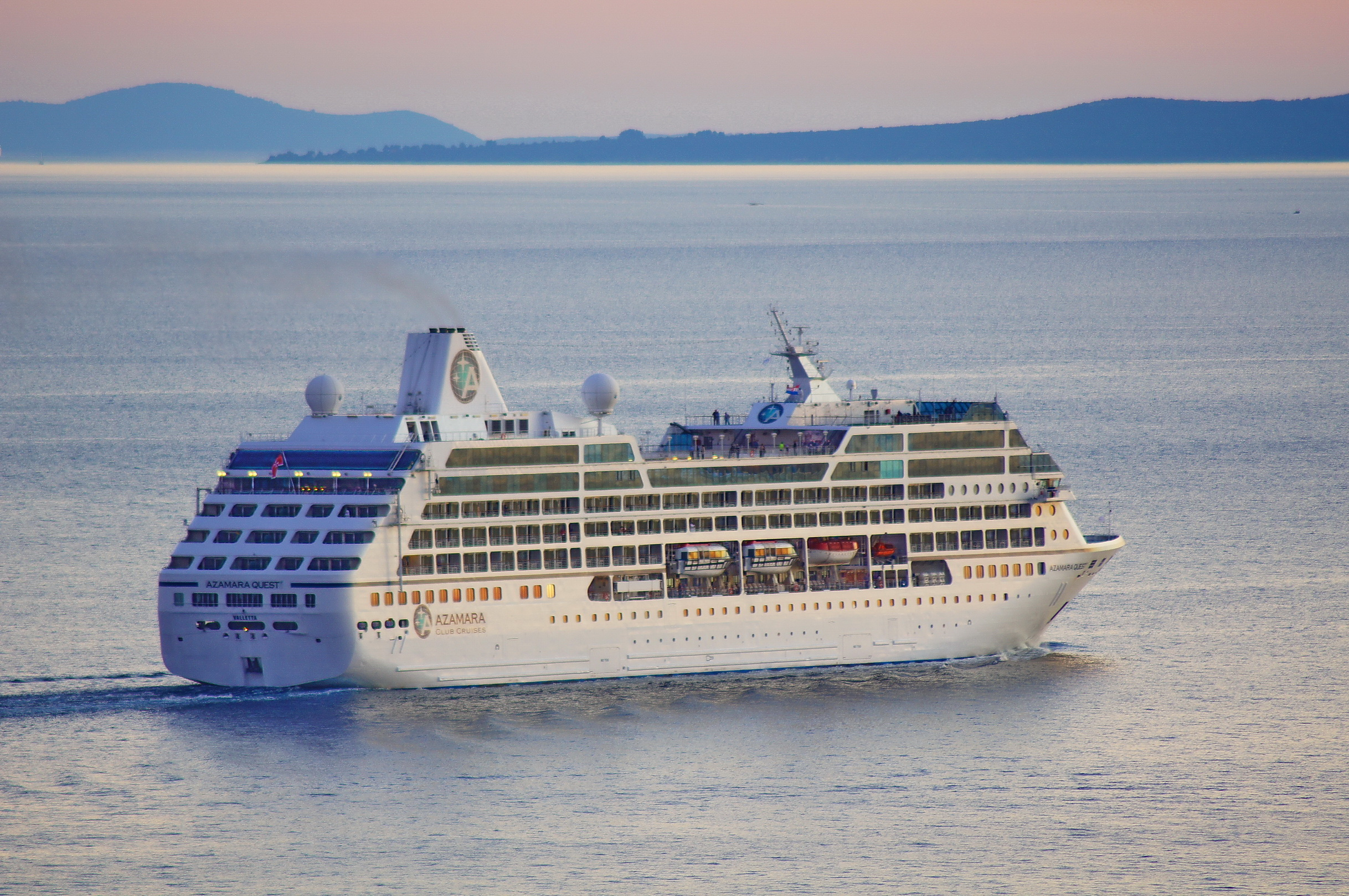 Azamara Quest (ship, 2000) IMO 9210218; in Split, 2011-11-13